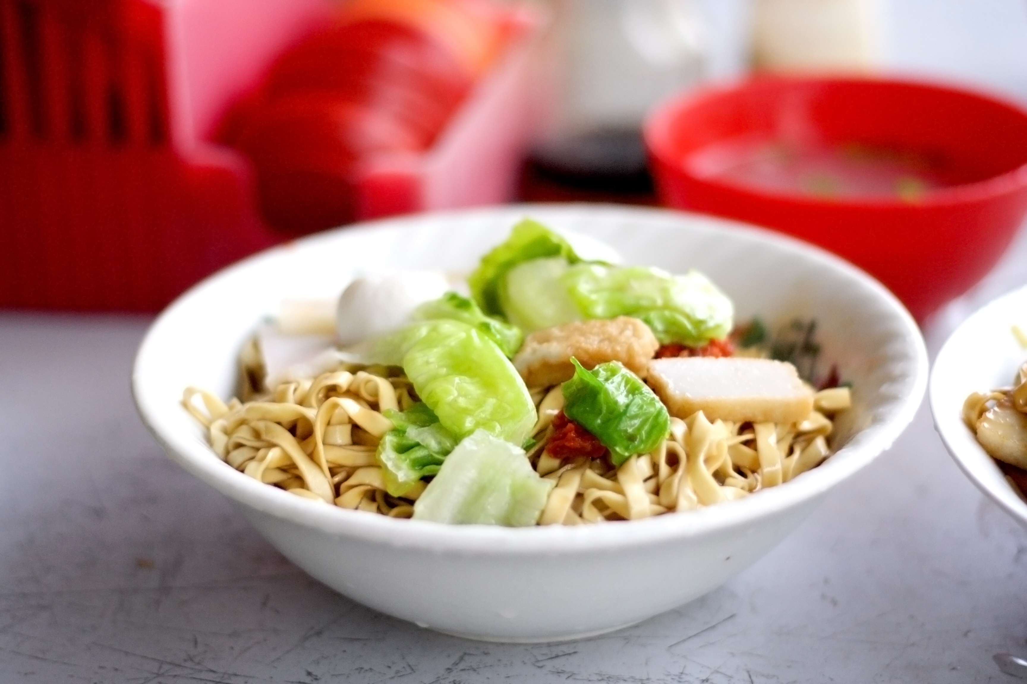 A bowl of "dry" fish ball mee pok.